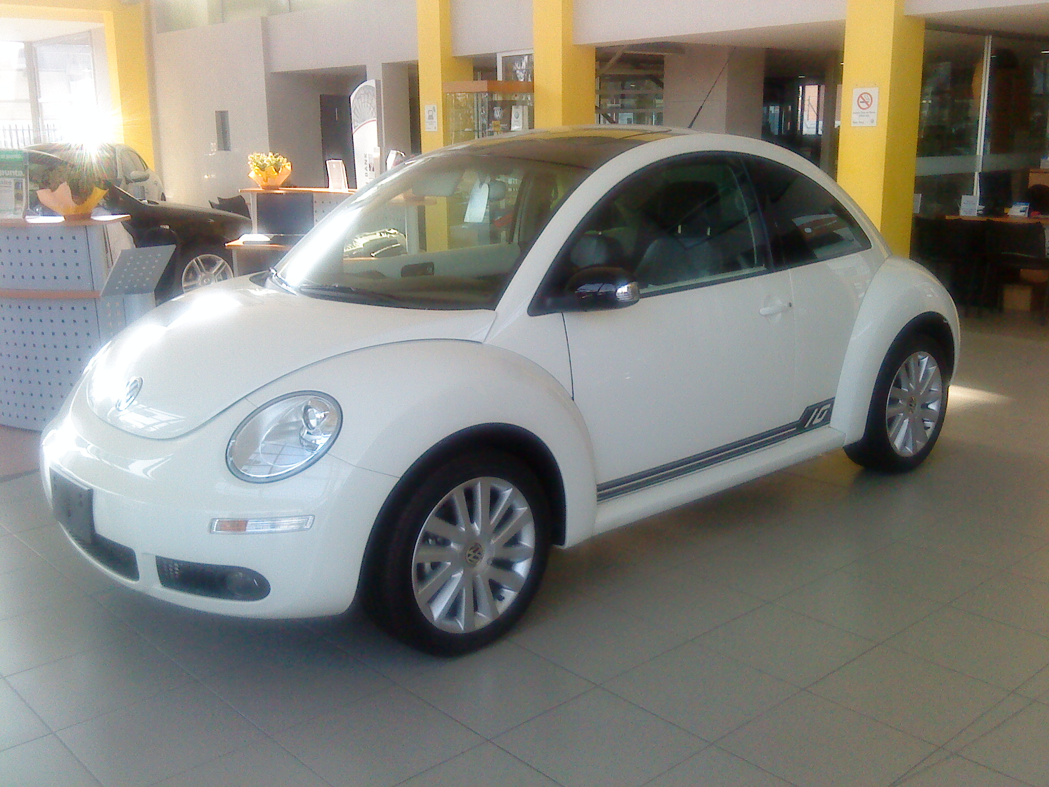 A 2008 Volkswagen New Beetle 10th Anniversary Edition